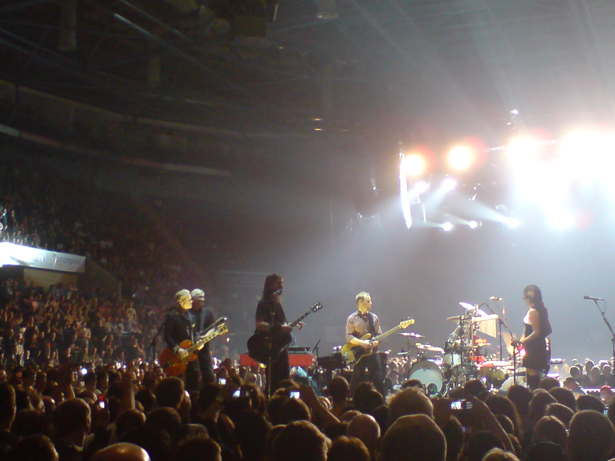 The Foo Fighters look to Taylor Hawkins (on the drums) whilst he plays a drum beat.